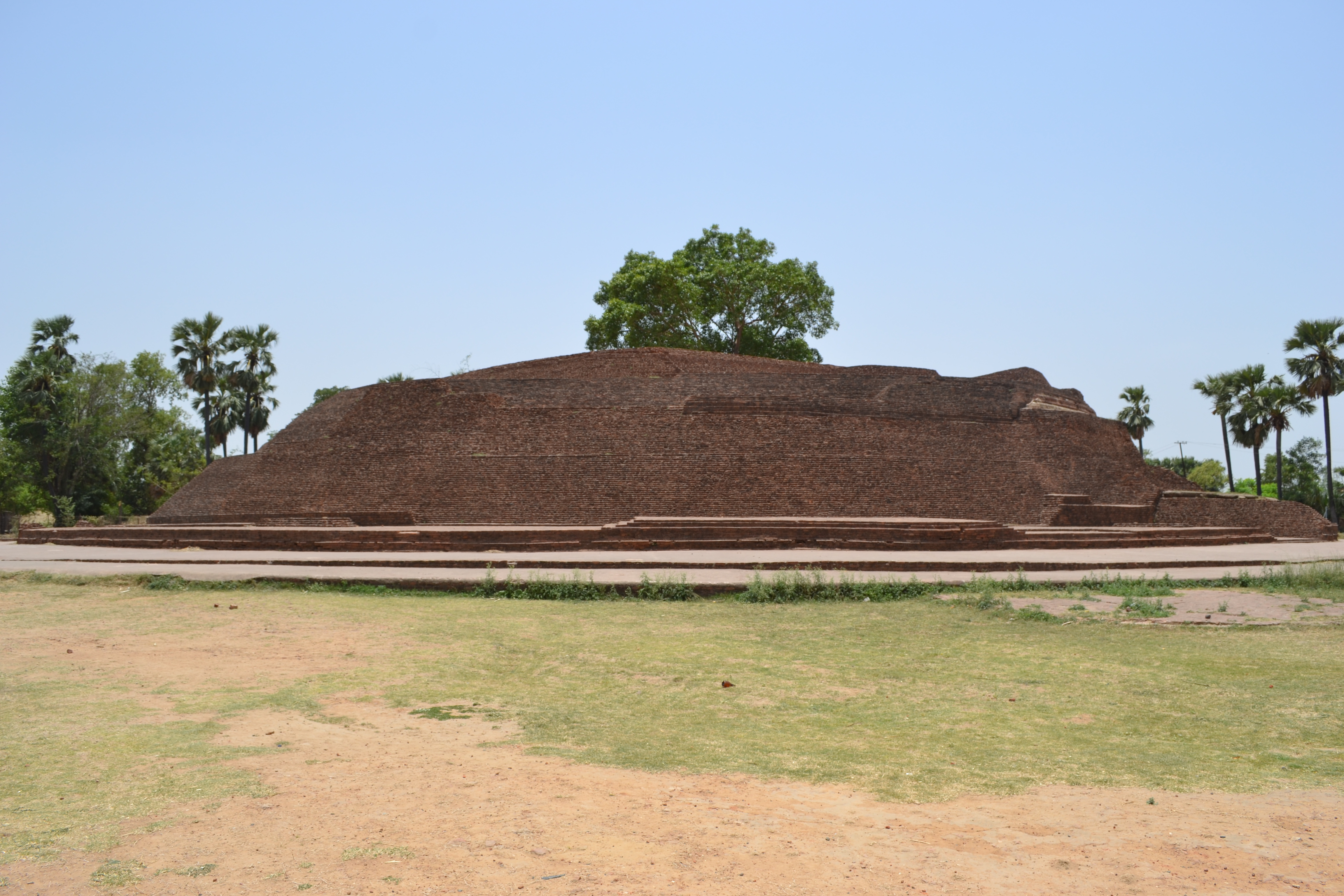 Ancient Stupa and other remains locally known as Sujata garh